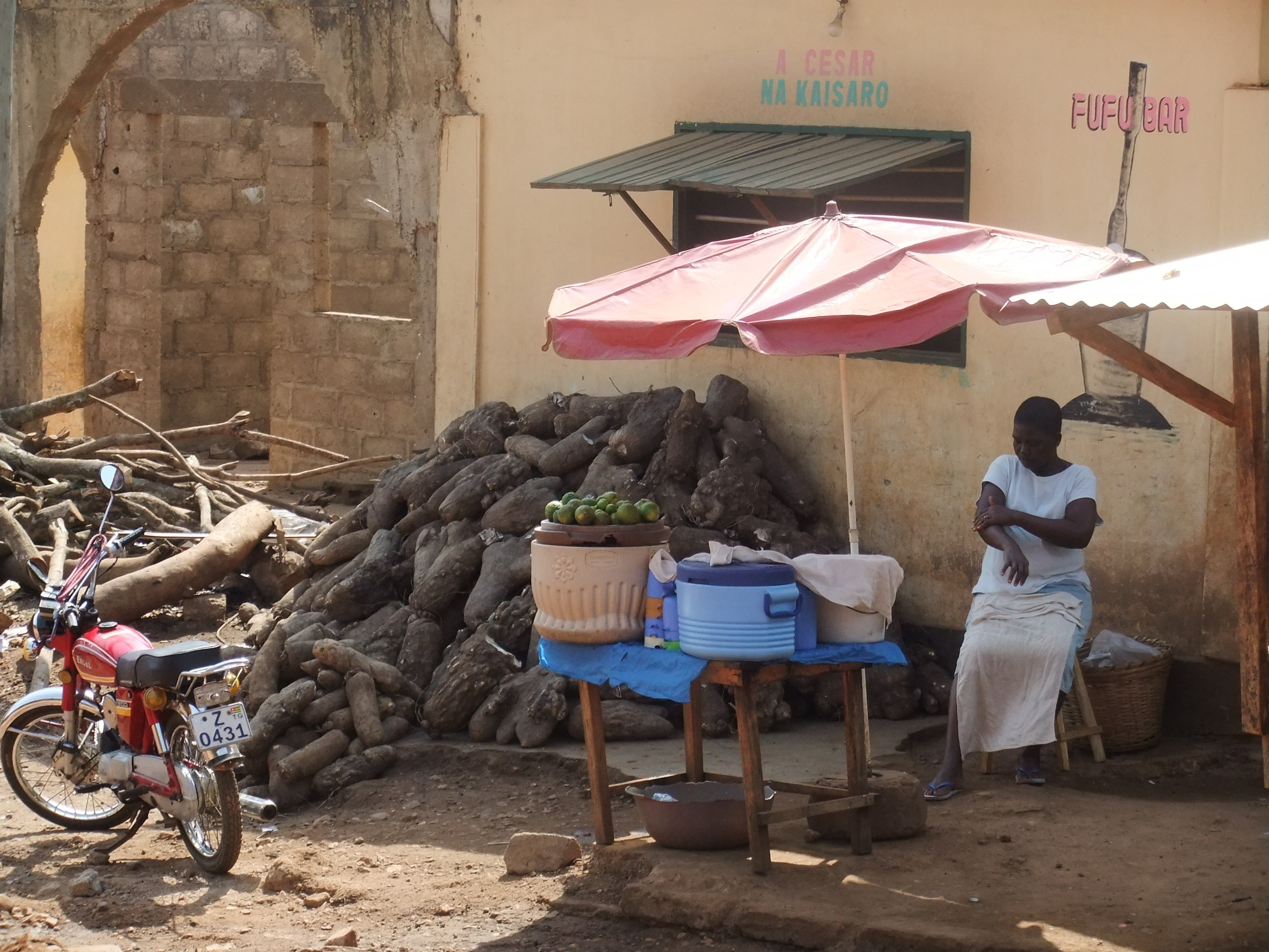 South Togo This is an image of "African people at work" from Togo